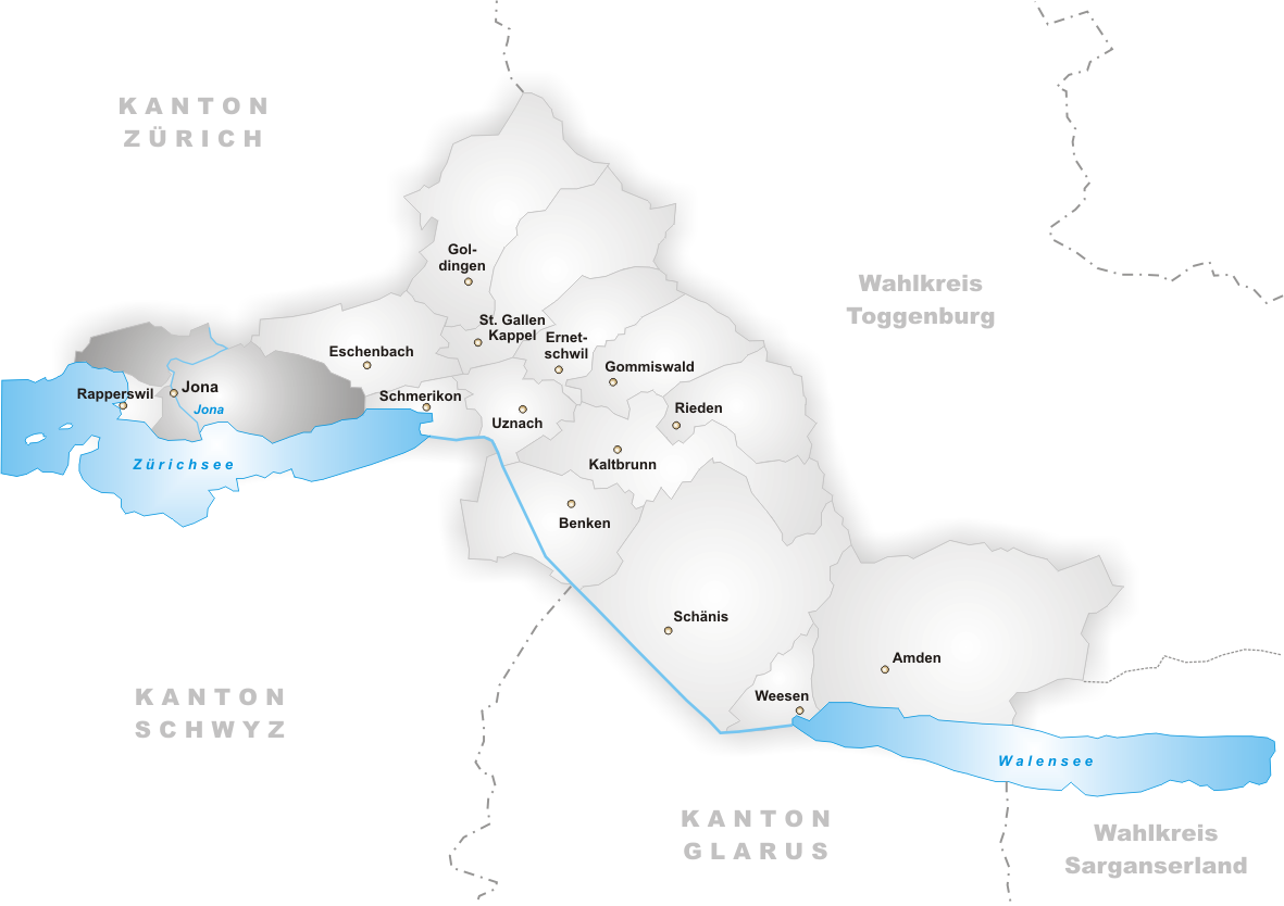 Municipality Jona